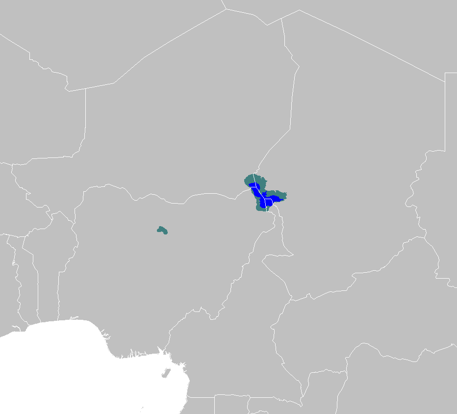 Lake Chad flooded savanna ecoregion map